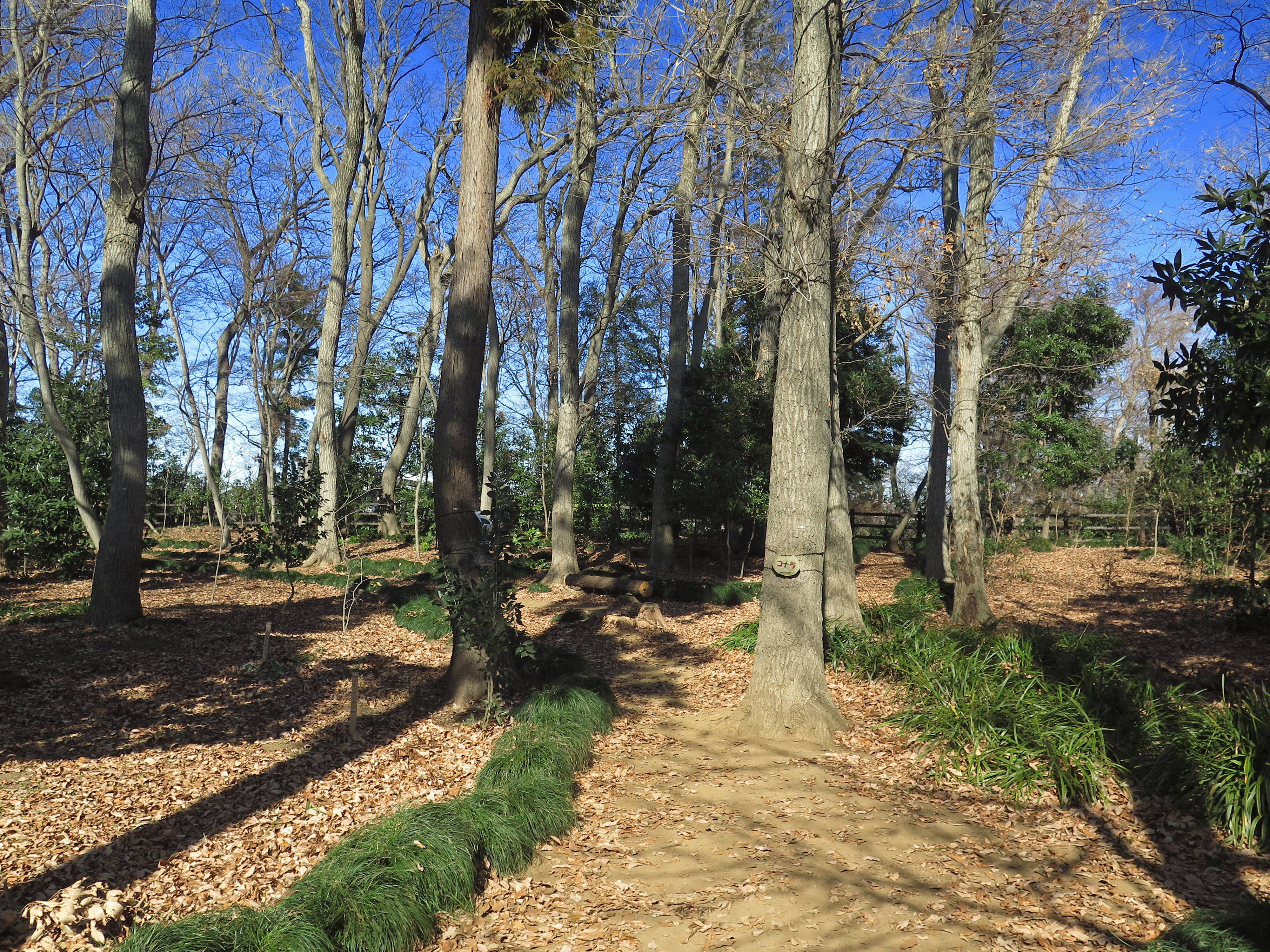 Omaki Natural Green Space Midori Ward, Saitama-city, Saitama, Japan.